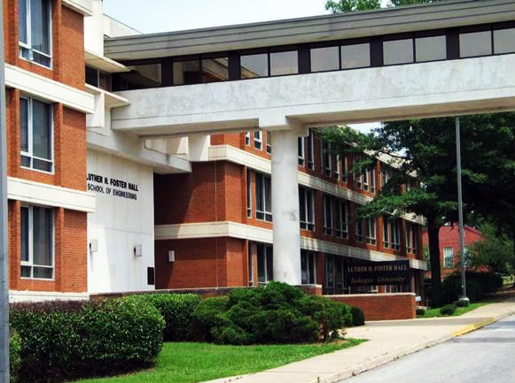 College of Engineering -Luther H. Foster Hall has long been home to one of the nation's best engineering programs containing: Aerospace Science Engineering, Chemical Engineering, Electrical Engineering, Materials Science Engineering, Mechanical and Military Science. The Tuskegee University Board of Trustees approved the Office of the Provost to research and develop several new academic degree programs to be submitted for Board approval that includes the Bachelor of Science in Civil Engineering.